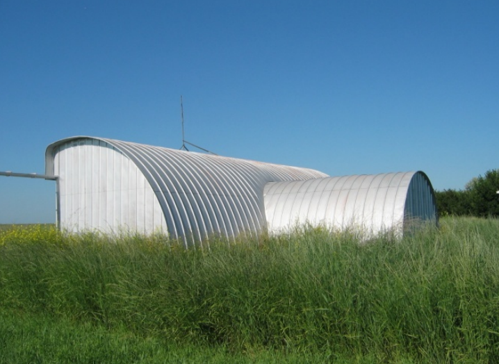 Photograph of Lower Souris National Wildlife Refuge Airplane Hangar, North Dakota, USA